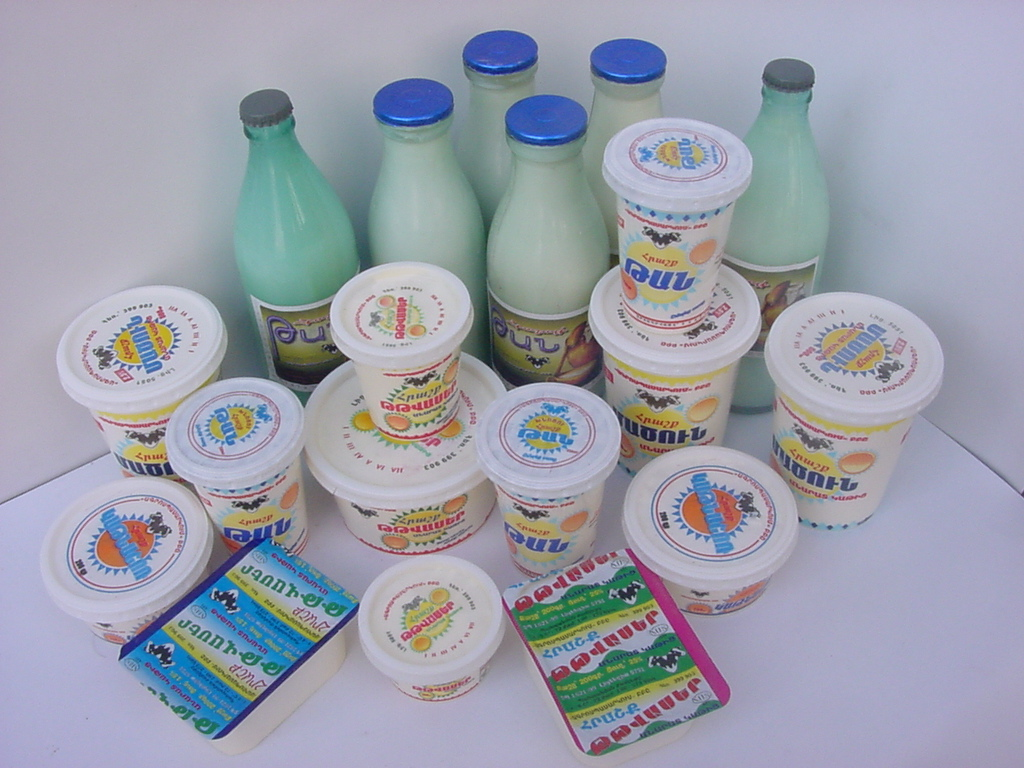 Agriservice products